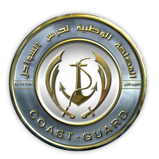 This is Algerain Coast-guard patch.